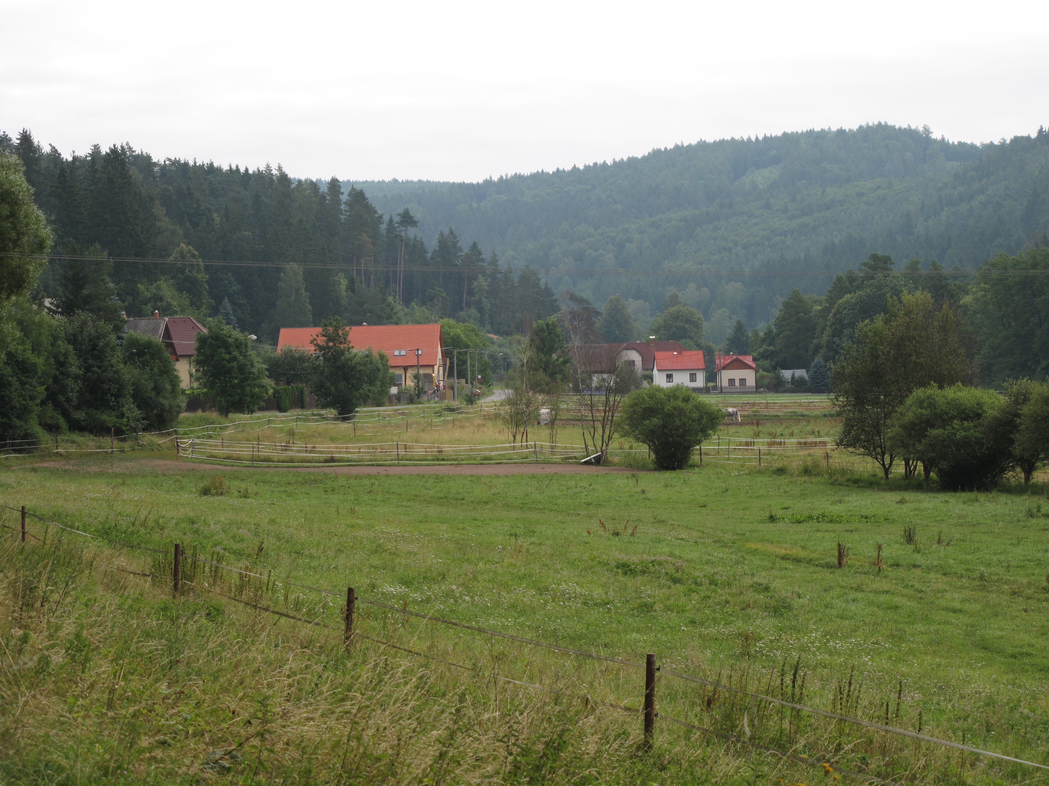 View at Pyskočely village with horse run, Prague-East District, Czech Republic.